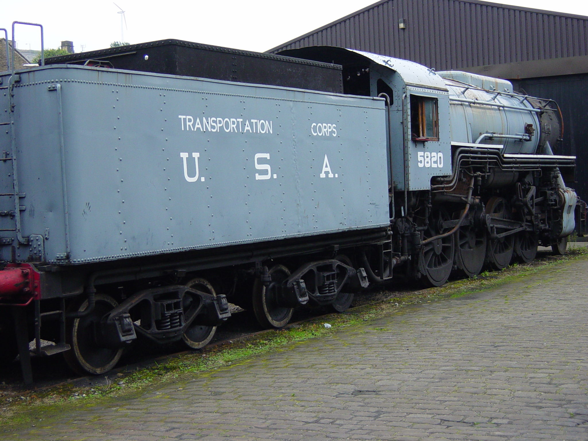 Preserved S160 No. 5820 at the Keighley and Worth Valley Railway, United Kingdom